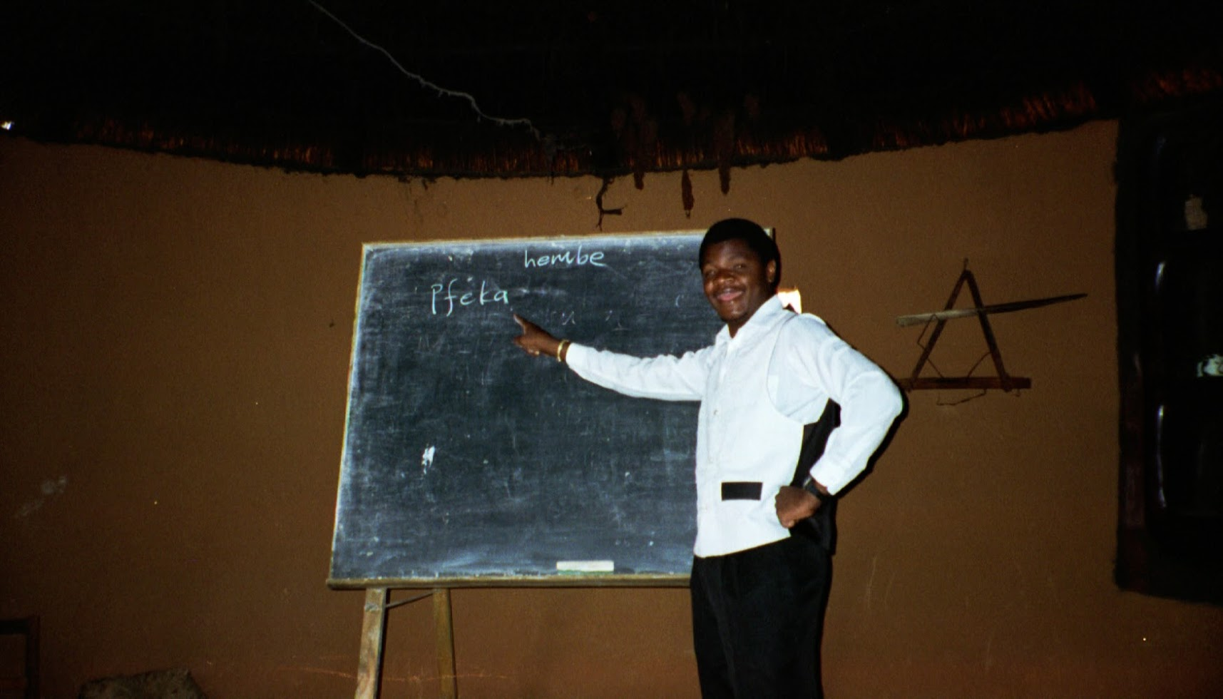 Teacher Ignatio Chiyaka teaching the Shona language to U.S. Peace Corps volunteers in Zhombe, Zimbabwe. This is an image of "African people at work" from Zimbabwe